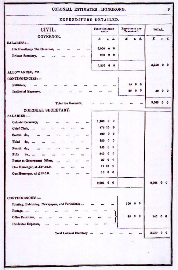 An extract of the Governor's salary of 1860. Extracted from Colonial Estimates Hong Kong, 1860-1869.